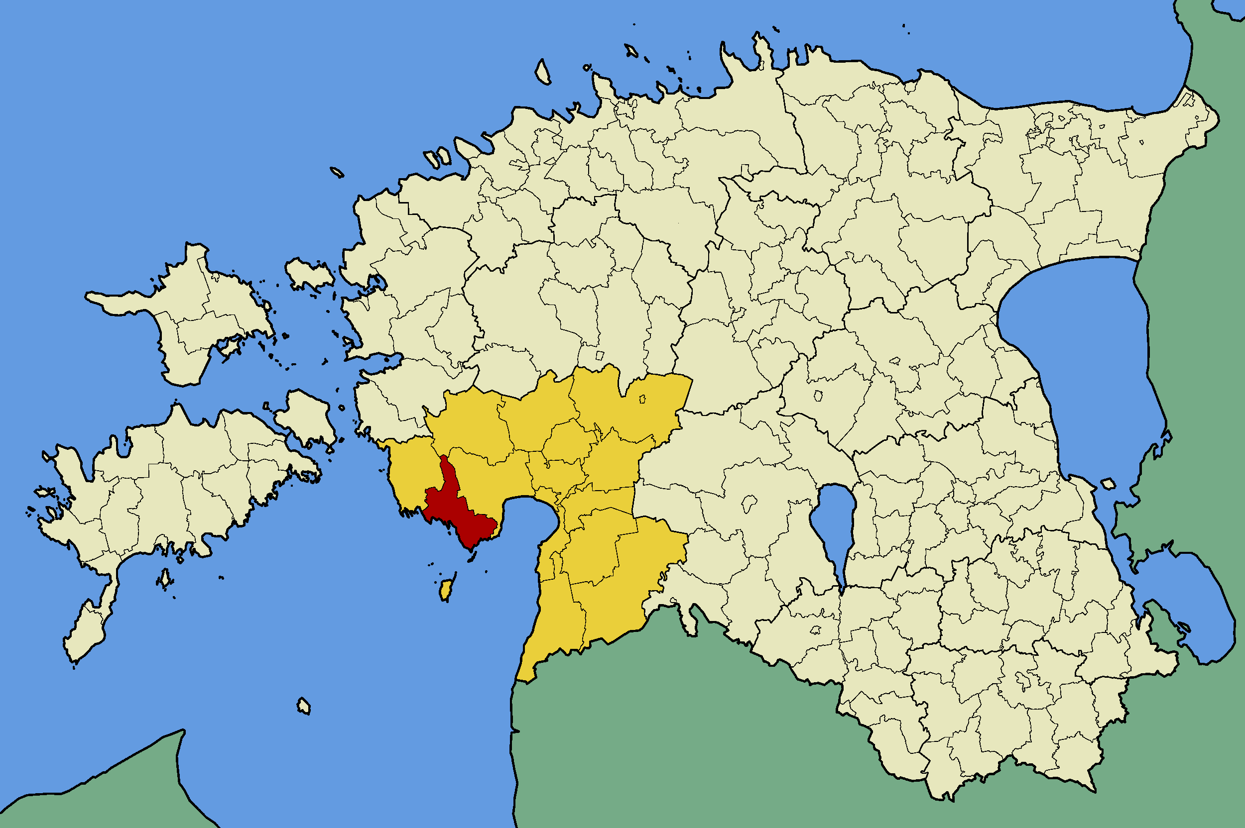 Map of Estonia with borders of municipalities (parishes). Pärnu county and Tõstamaa municipality emphasized.